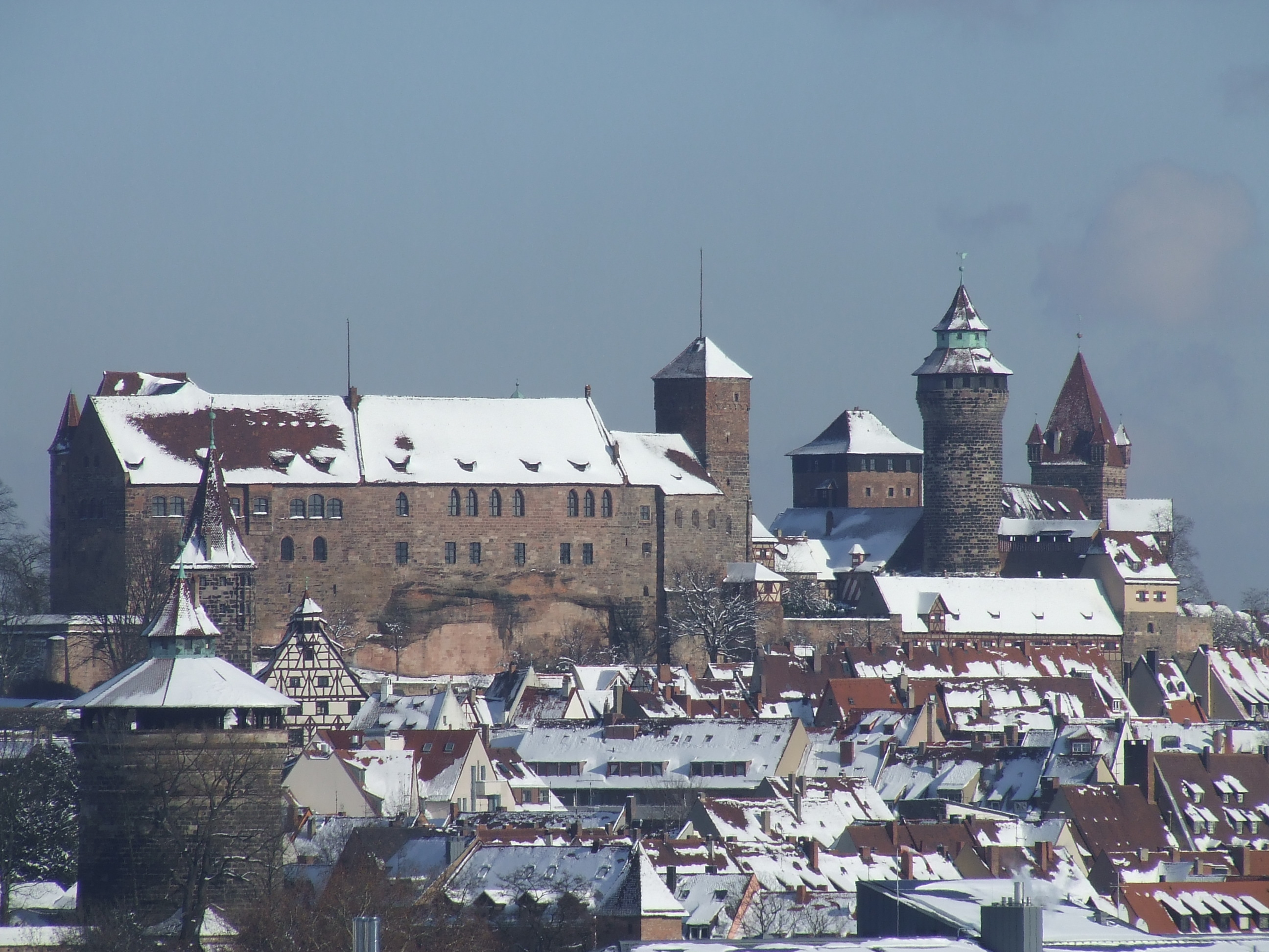 Nuremberg Castle